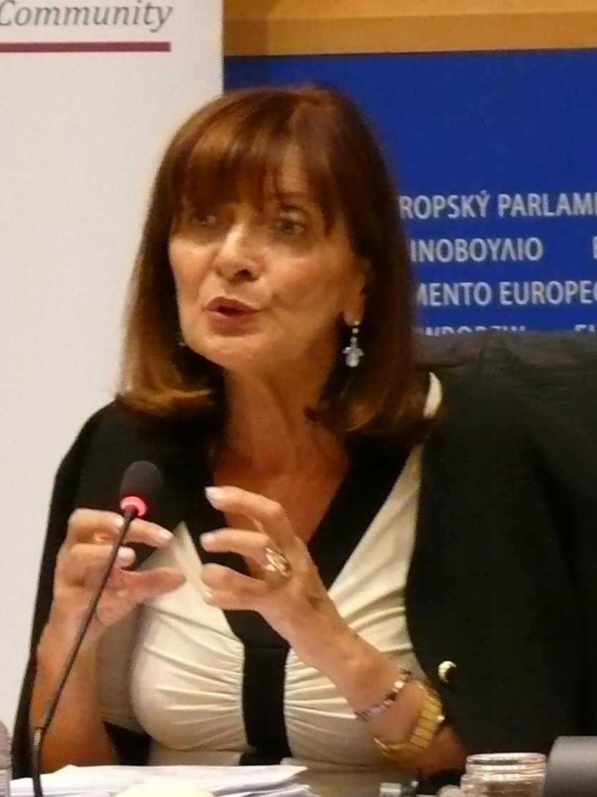 Patrizia Toia in the European Parliament, September 4, 2013